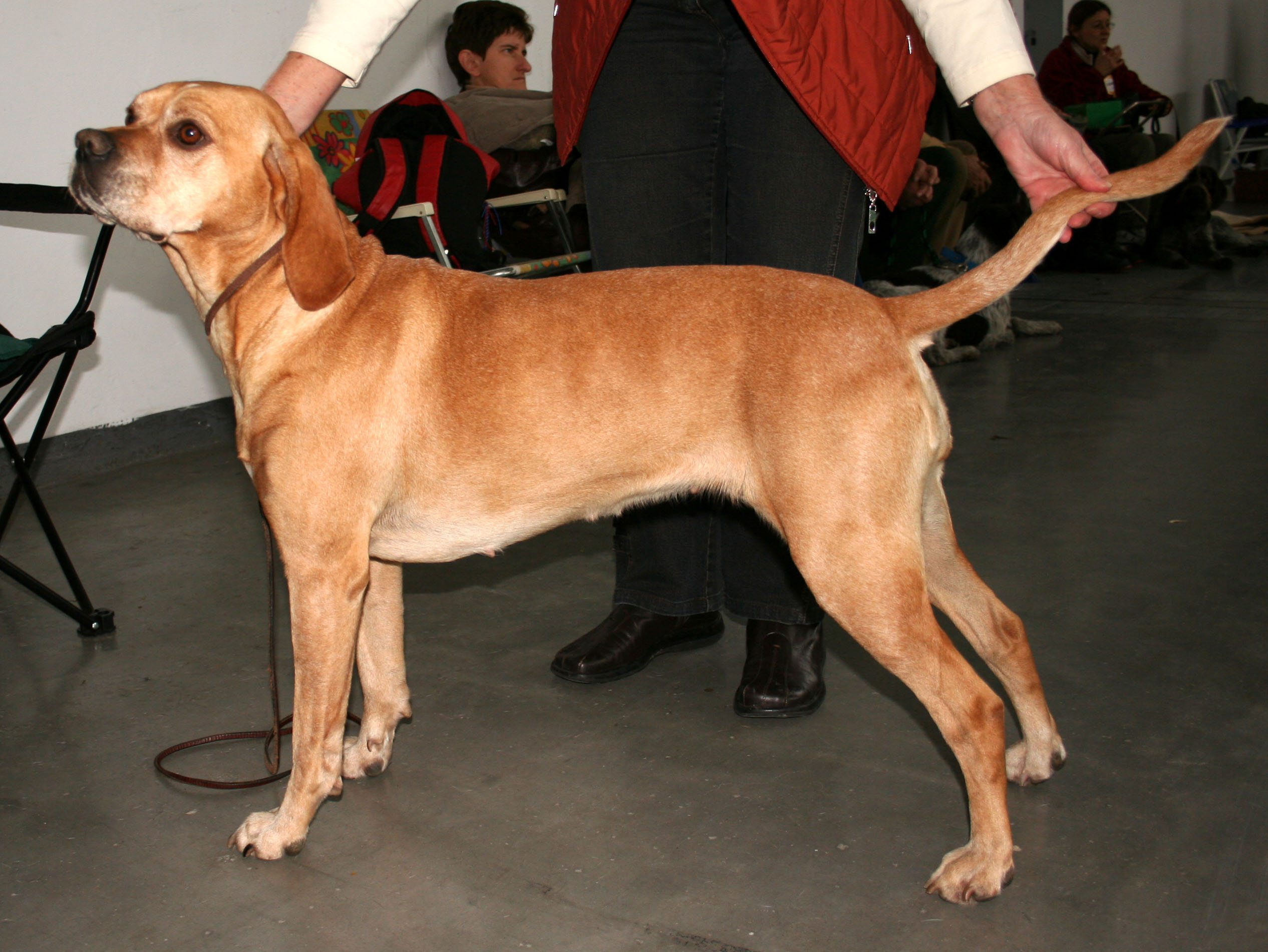 Portuguese Pointer during Dog World Show in Poznań.